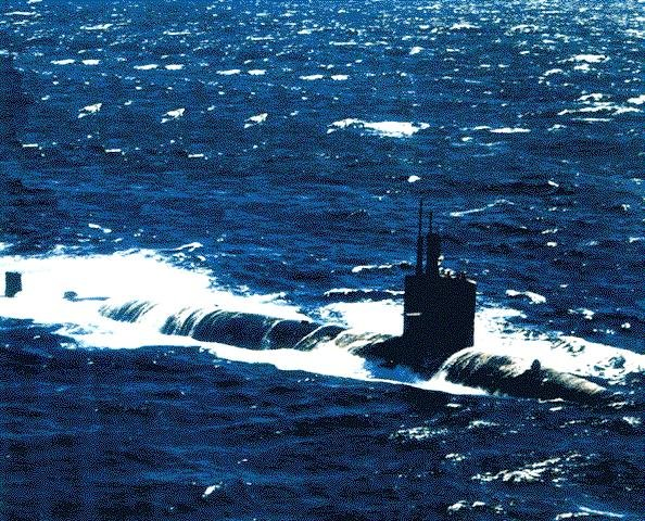 USS_Batfish; Batfish (SSN-681) as she appeared at the end of March 1995 in the western Atlantic Ocean as Batfish started a 6-month Mediterranean deployment with the USS Roosevelt (CVN-71) battlegroup. US Navy photo, contributed by Bill Papale / Federation of American Scientists web site